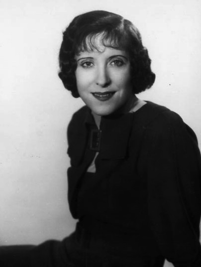 Publicity photo of Gracie Allen from the Burns and Allen CBS Radio program.